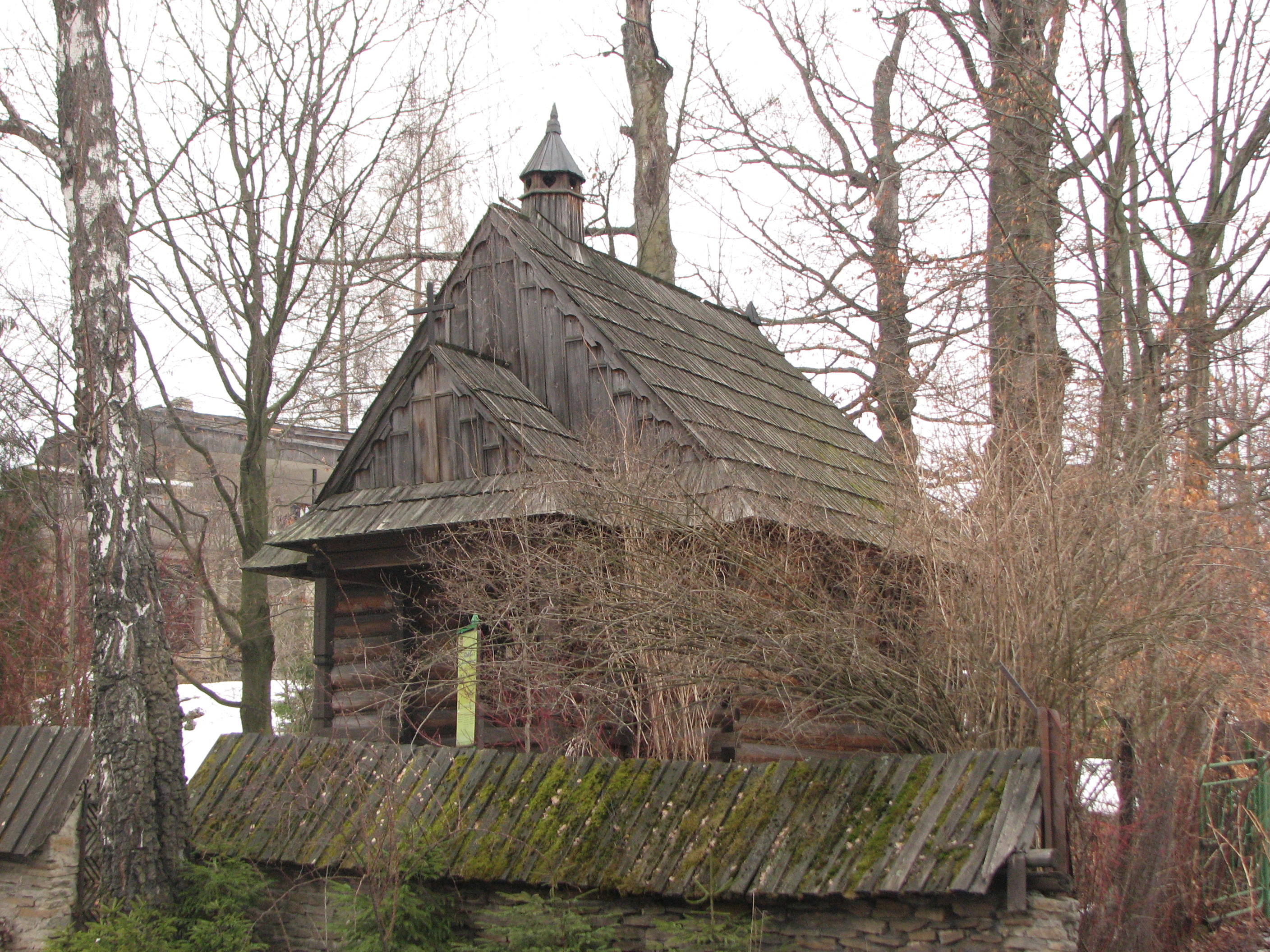 The Konarzewski Family votive chapel in Istebna-Andziołówka from 1922